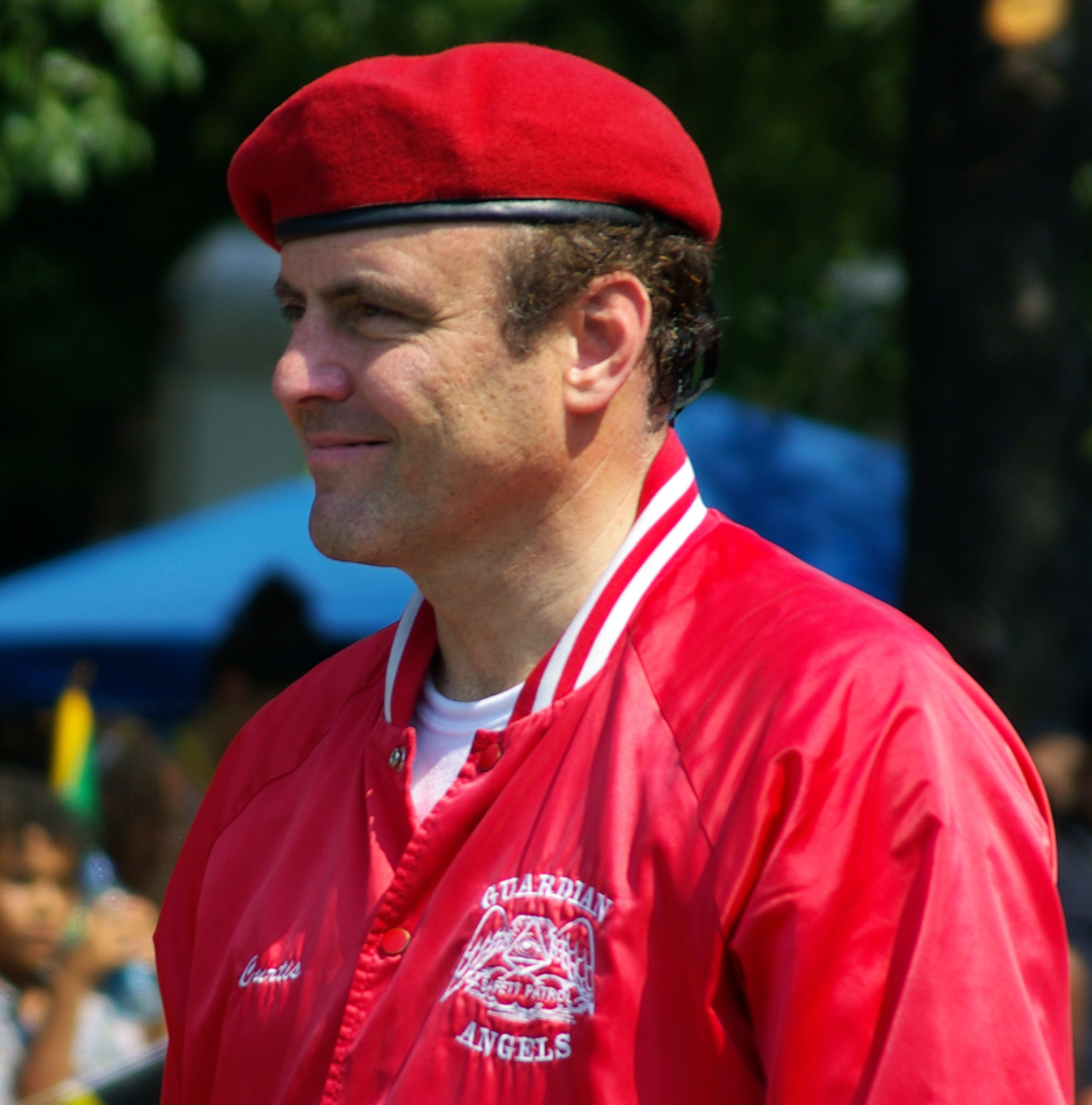 Cropped version of photo. West Indian Day parade at the Grand Army Plaza, Eastern Parkway, Brooklyn, NY